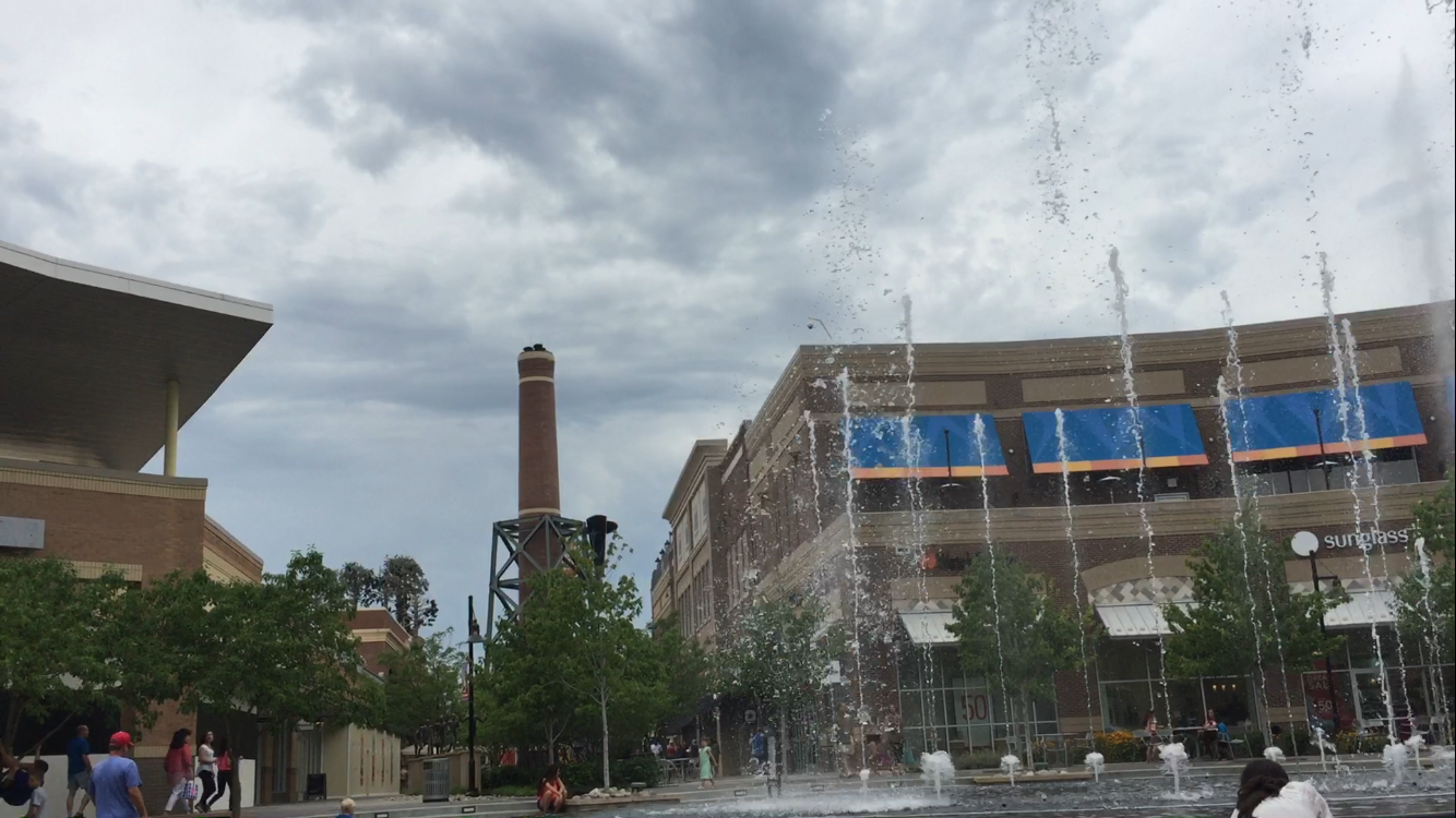 Fountains at Legends in KCK by Ian Ballinger